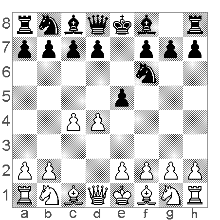 chess diagram Budapest gambit Source: CBlight + my processing